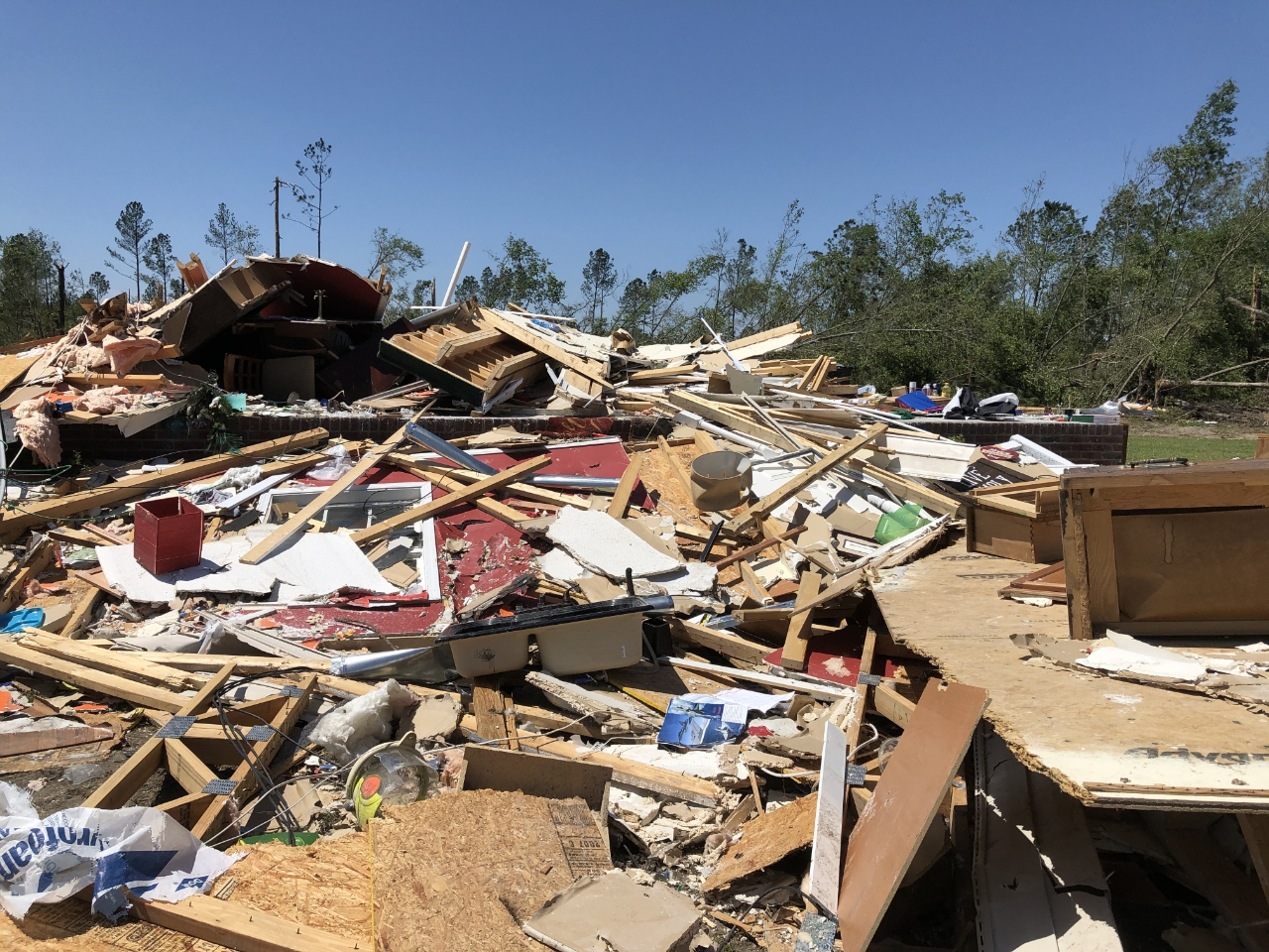 EF4 damage to a two-story house to the northeast of Nixville, South Carolina.